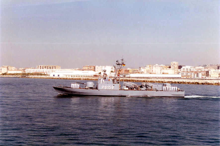 German patrol boat Reiher